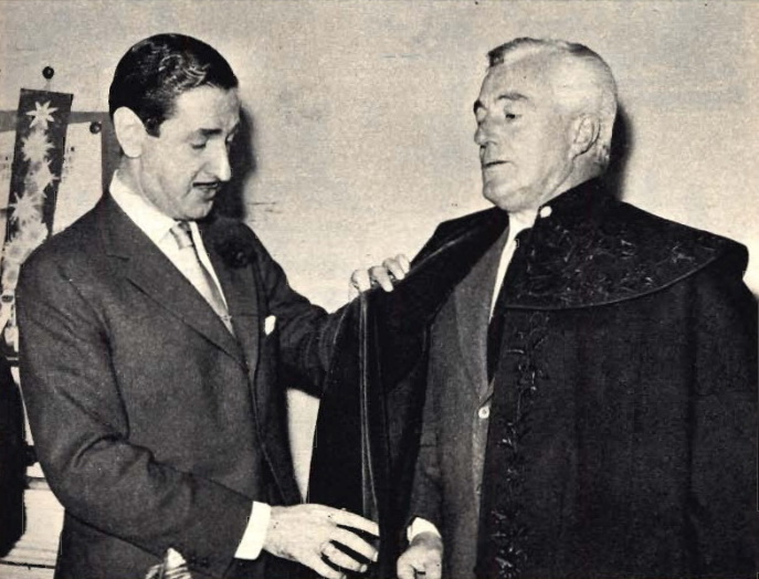 Jaime de Mora y Aragón and Vittorio De Sica in Rome, in the set of the Italian film Il giudizio universale